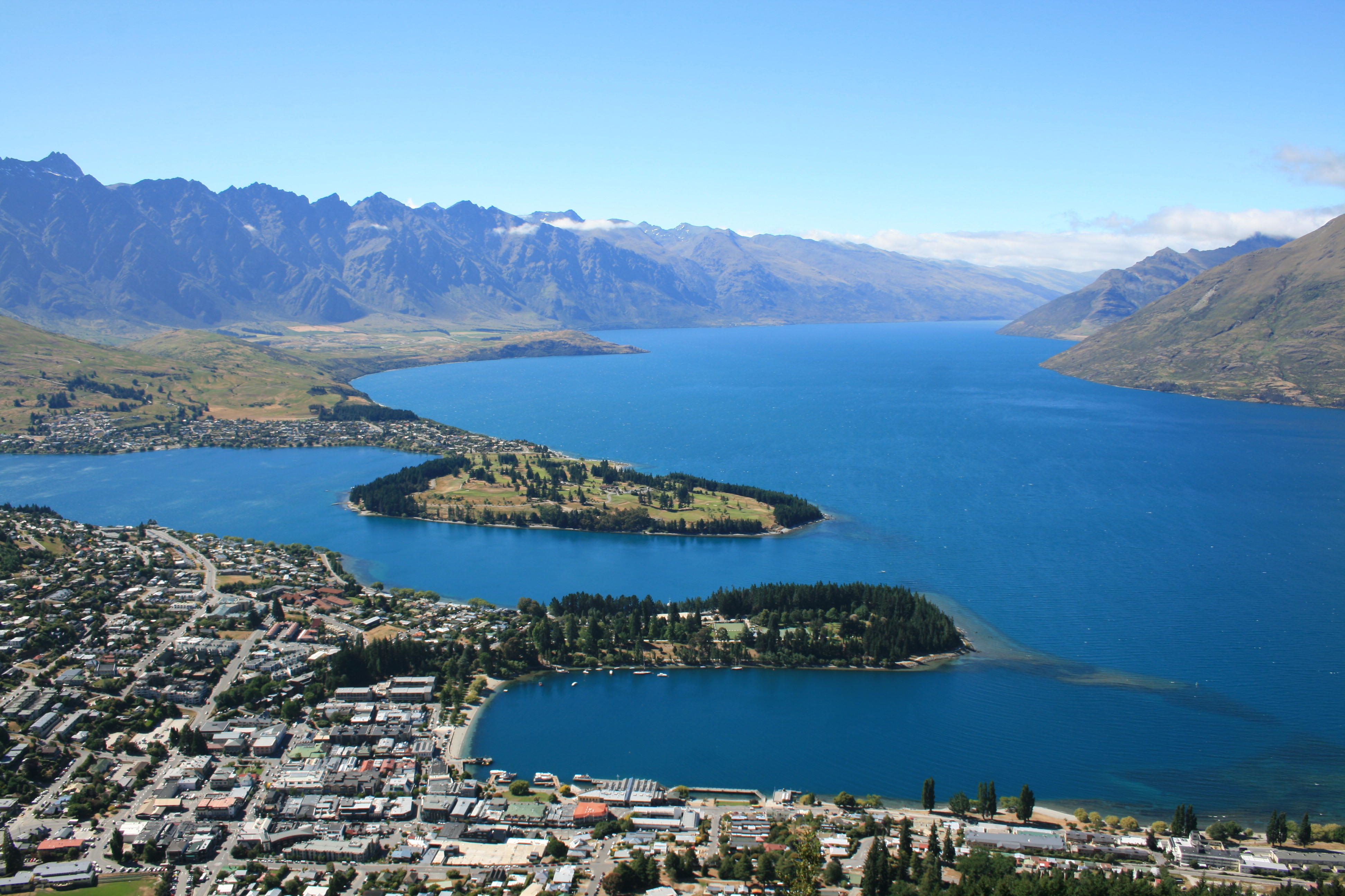 Queenstown, New Zealand